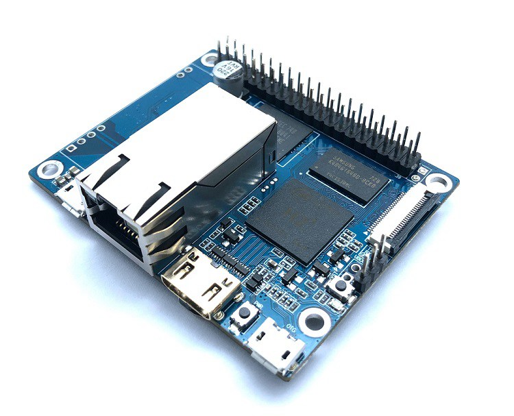 BPI-P2 zero